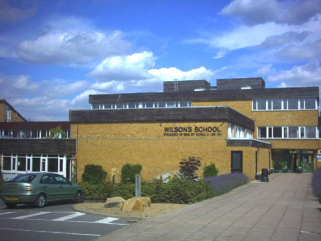 Wilson's School, Mollison Drive, Roundshaw. Established by Royal Charter in 1615 according to the sign.